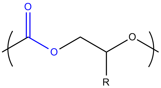 Carbon dioxide directly used in a polymer backbone